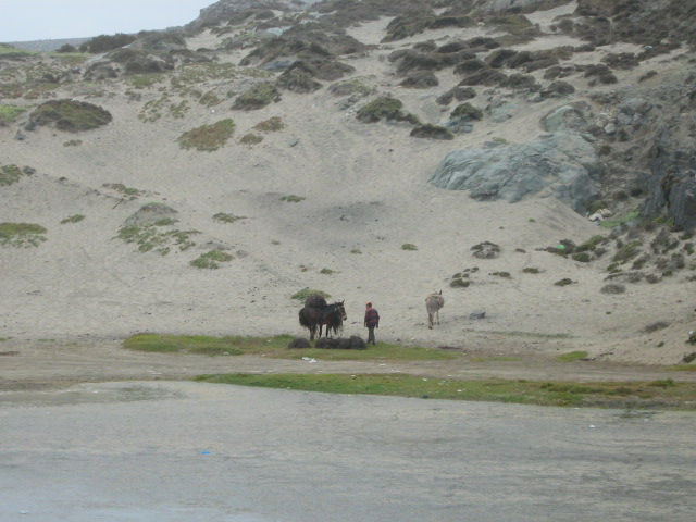 Man gathering seaweed.